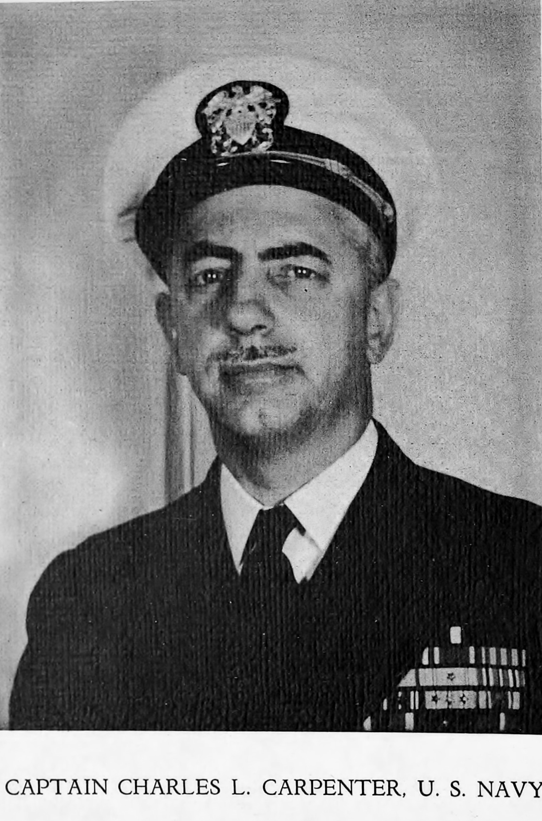 Captain Charles L. Carpenter, USN in a biography picture from 1952.